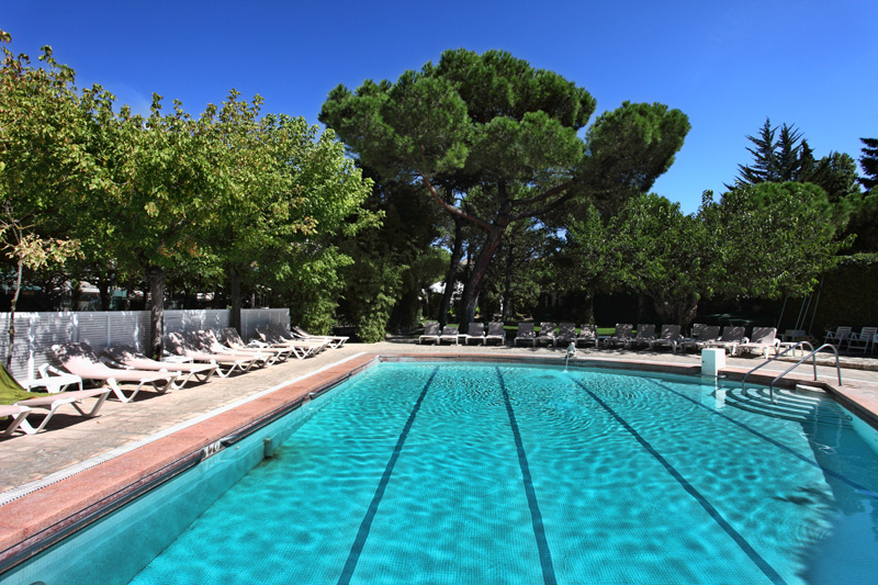 Balneari Prats